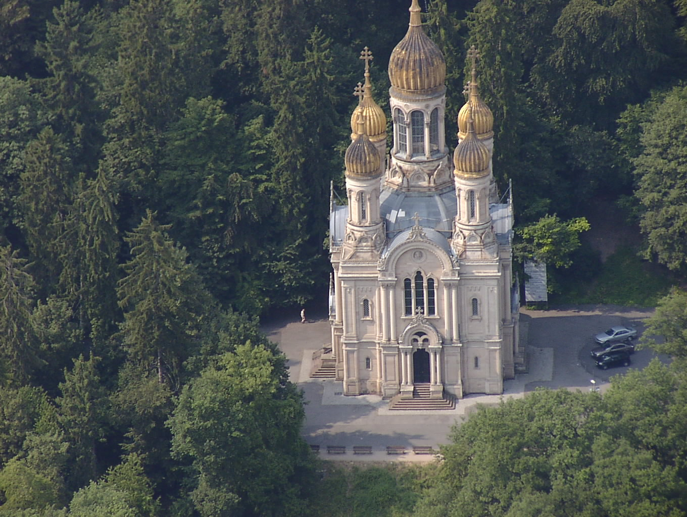 Russian Orthodox Church in Wiesbaden, Germany